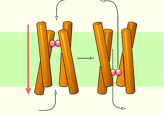 Conformació i idea bàsica de la proteïna rocker durant el transport de ions (rosa)